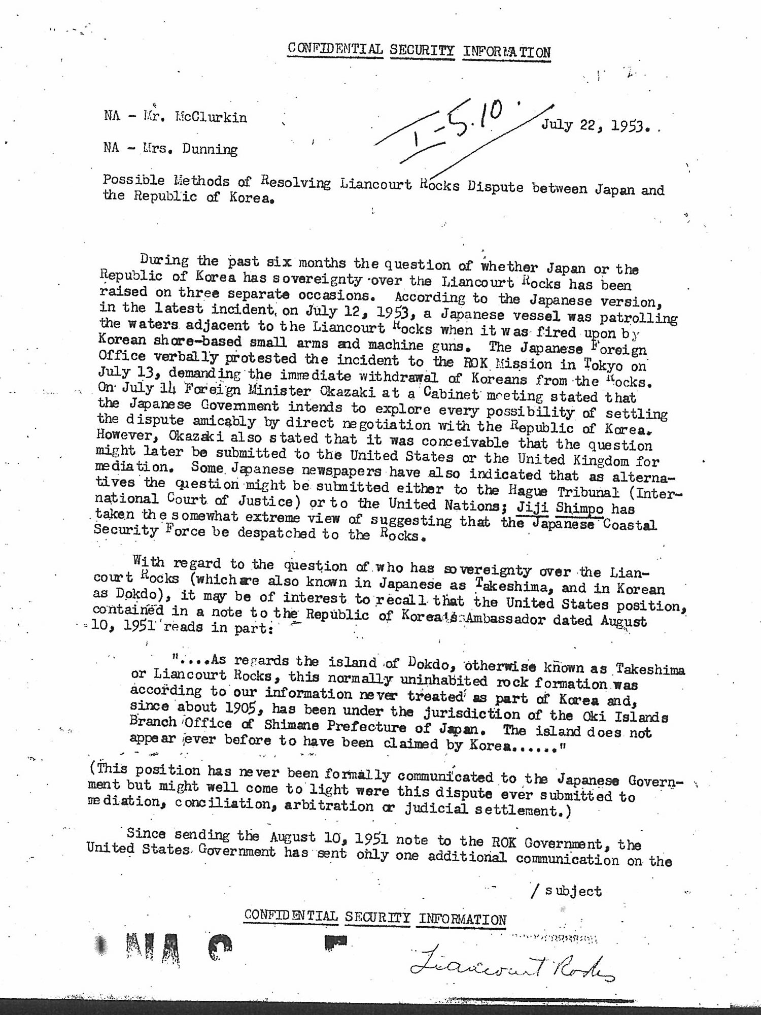 Possible Methods of Resolving Liancourt Rocks Dispute between Japan and the Republic of Korea